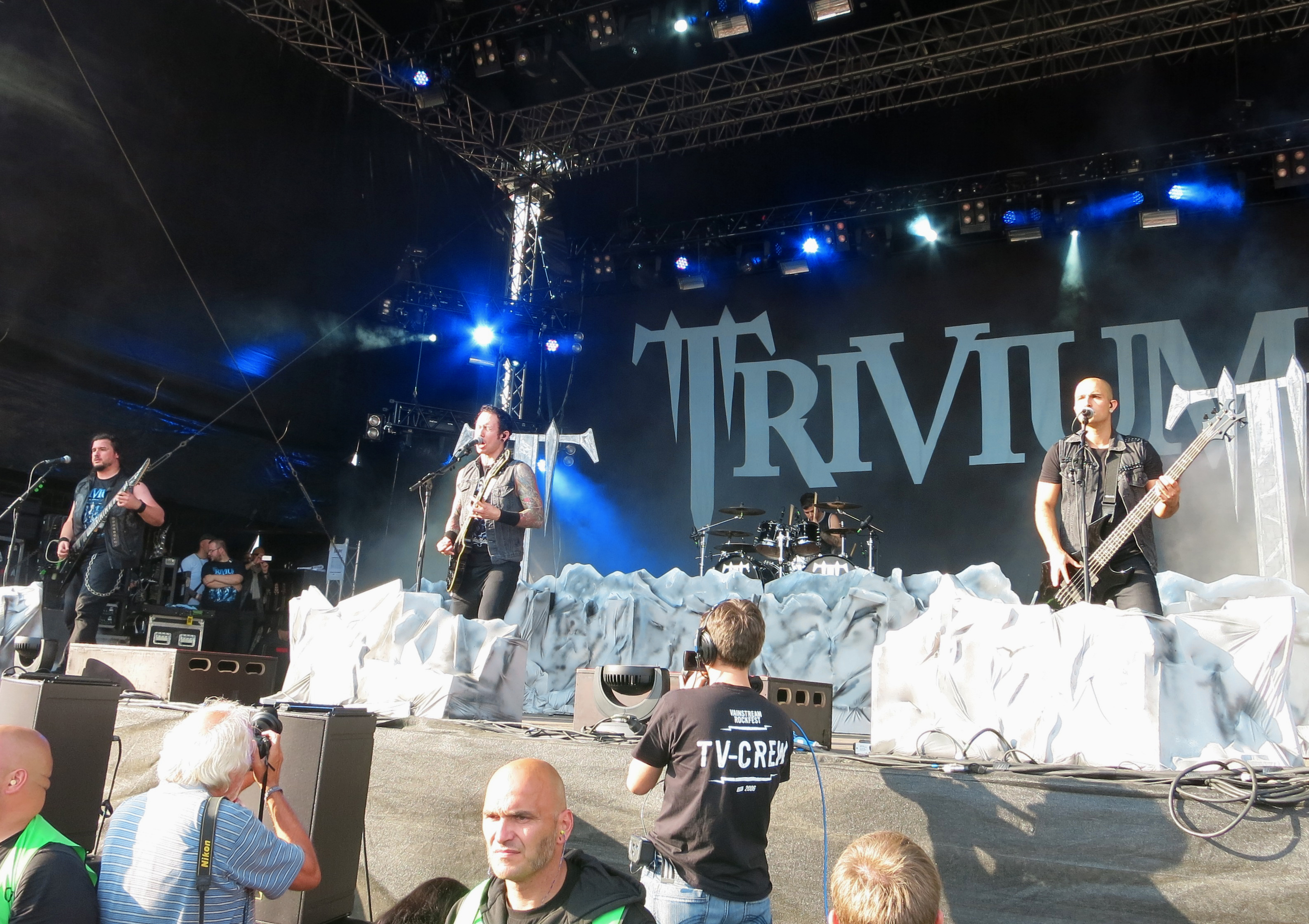 Trivium at Elbriot 2013